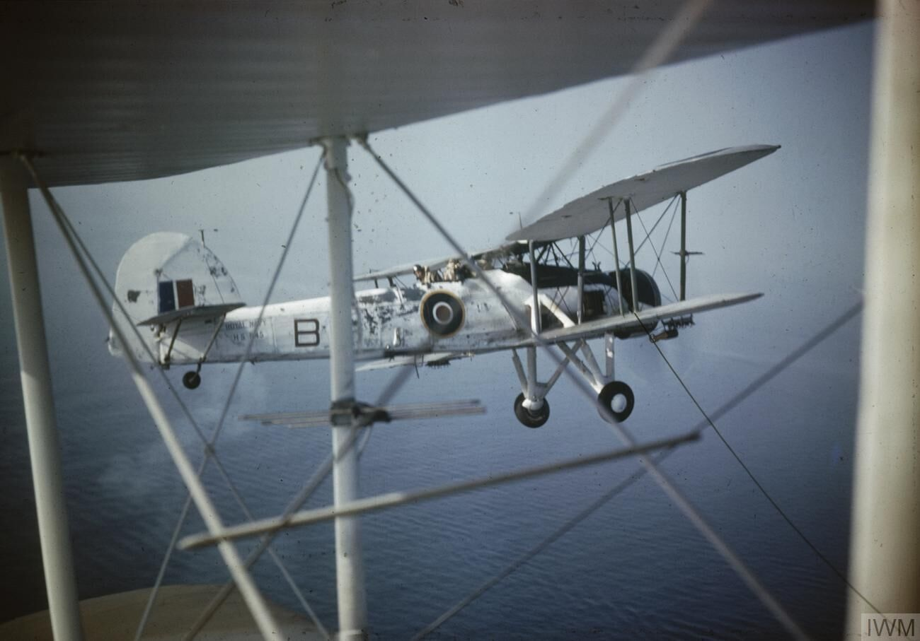 A Fairey Swordfish in Flight Close-up of a Fairey Swordfish Mark II, HS 545 'B', in flight as seen through the struts of another aircraft, probably while serving with No 824 Squadron, Fleet Air Arm, 1943-1944.